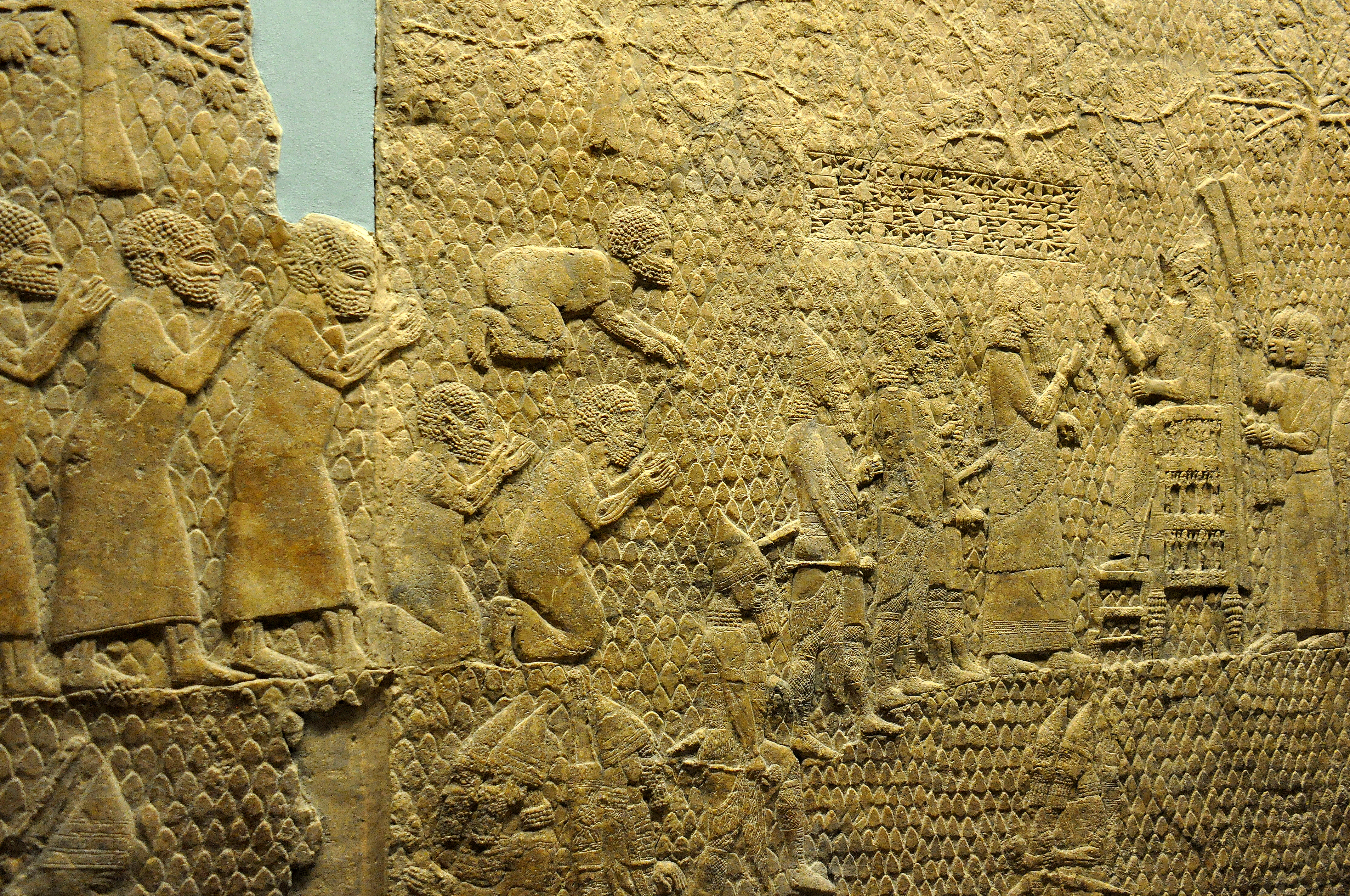 After a long siege, the city of Lachish surrendered and the Assyrian army entered the city. King Sennacherib sits on his royal chair, surrounded by attendants and greets a high-ranking official. The king reviews Judaean prisoners. The cuneiform inscriptions read " Sennacherib, king of the world, king of Assyria sat on a throne and the booty of Lachish passed before him." Wall relief from the South-West Palace at Nineveh (modern-day Ninawa Governorate, Iraq), Mesopotamia. Neo-Assyrian period, 700-692 BCE. The British Museum, London.